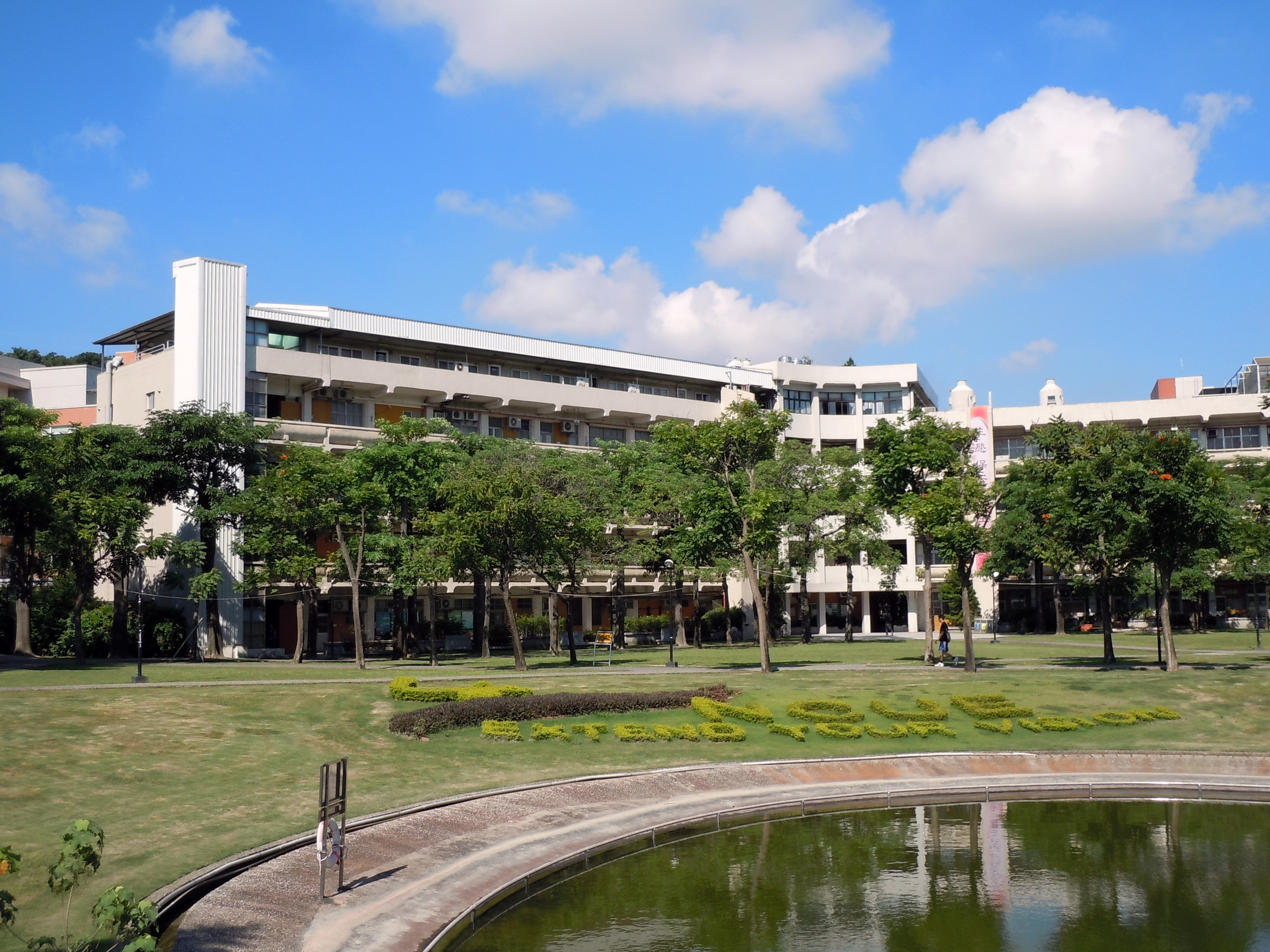 The Gezhi Building in Jinde Campus, National Changhua University of Education 中文（台灣）: 國立彰化師範大學進德校區的格致樓